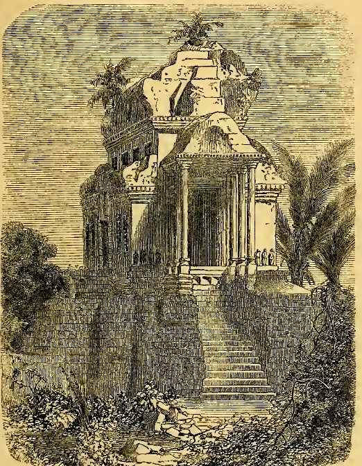 Drawing by Henri Mouhot, Pavillion of Angkor Wat